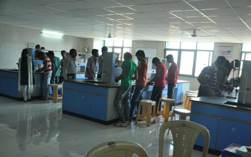 Pic showing chemistry lab of PCoE.